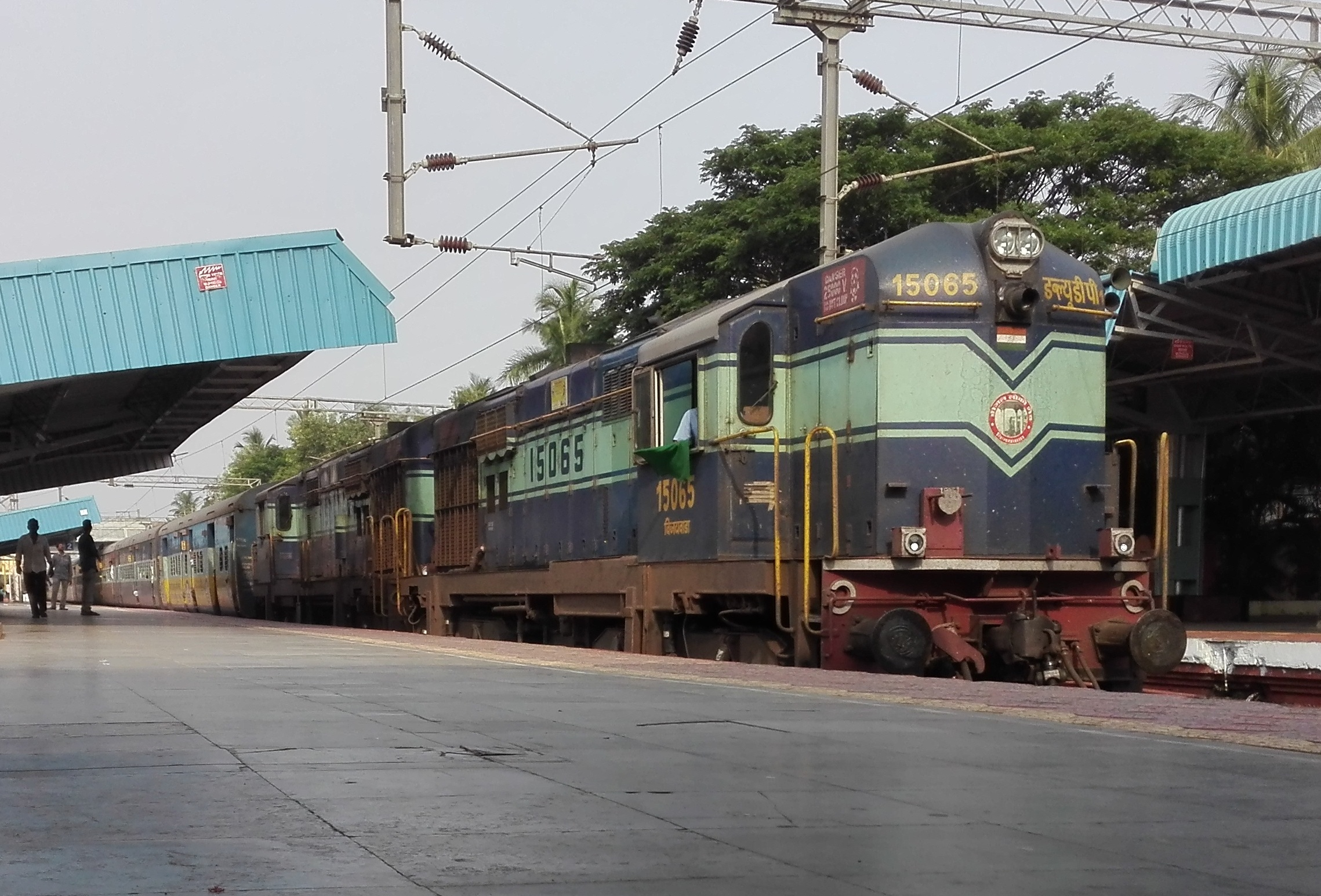 Kakinada bound Seshadri Express at Samalkot Junction with WDP1 twin locos incharge